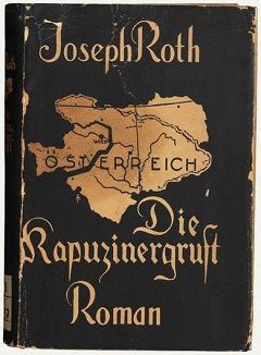 Book cover of the "kapuzinergruft" by Joseph Roth. First edition, Holland, 1938